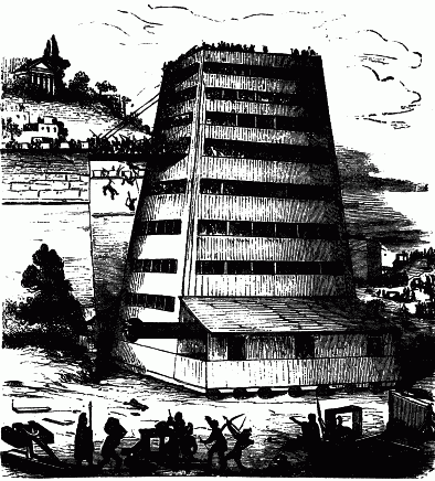 Siege Machine